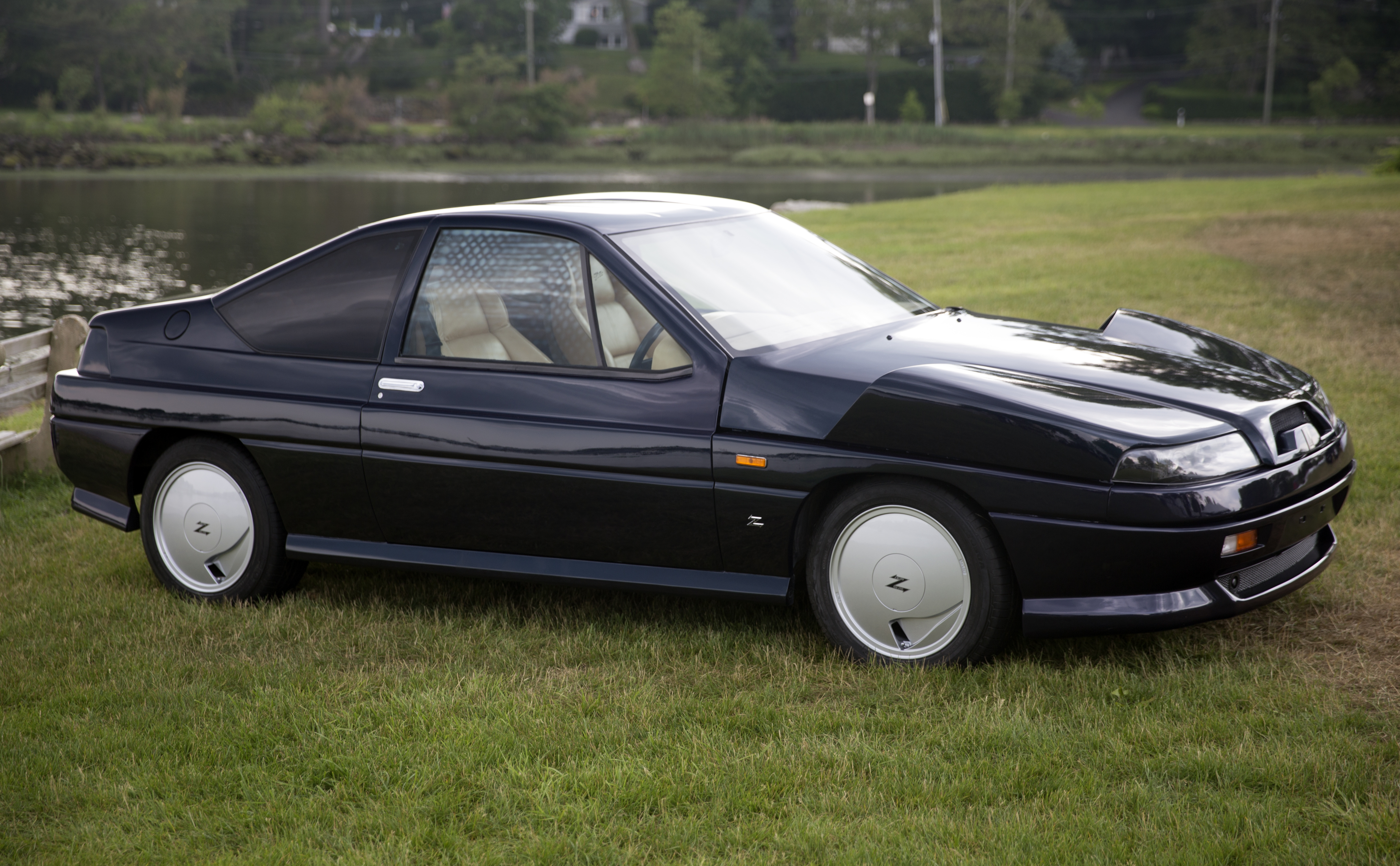 1991 Autech Zagato Stelvio AZ-1, one of 104 produced. At the 2019 Greenwich Concours d'Elegance.